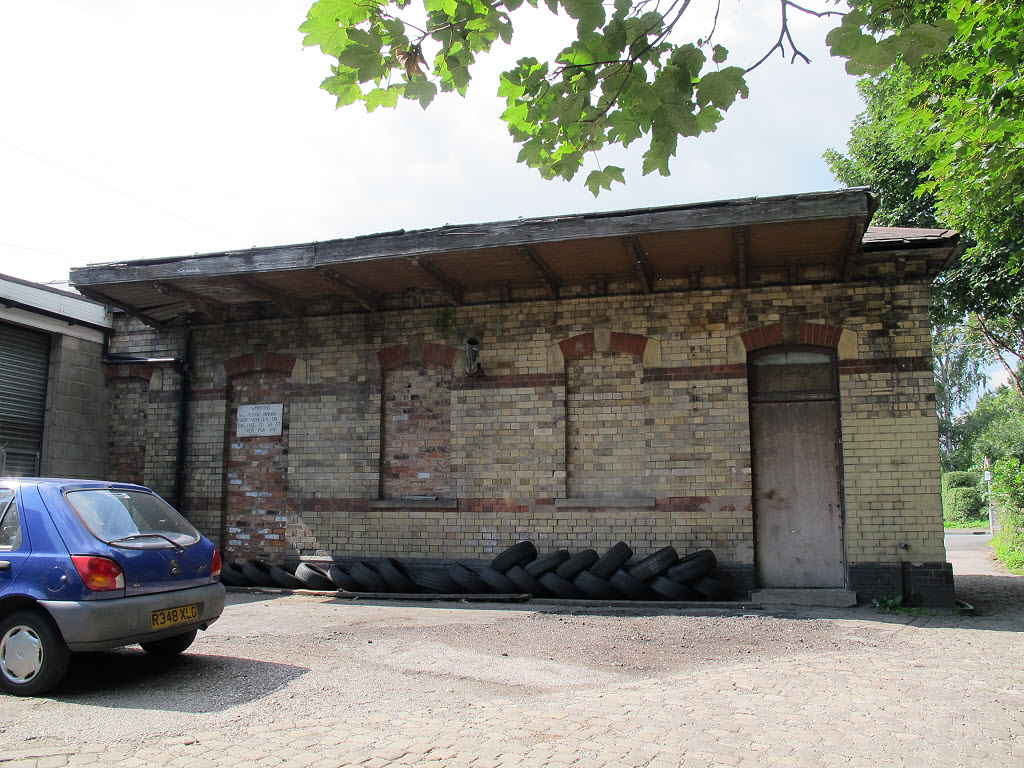 Rear of former Wheelock station building